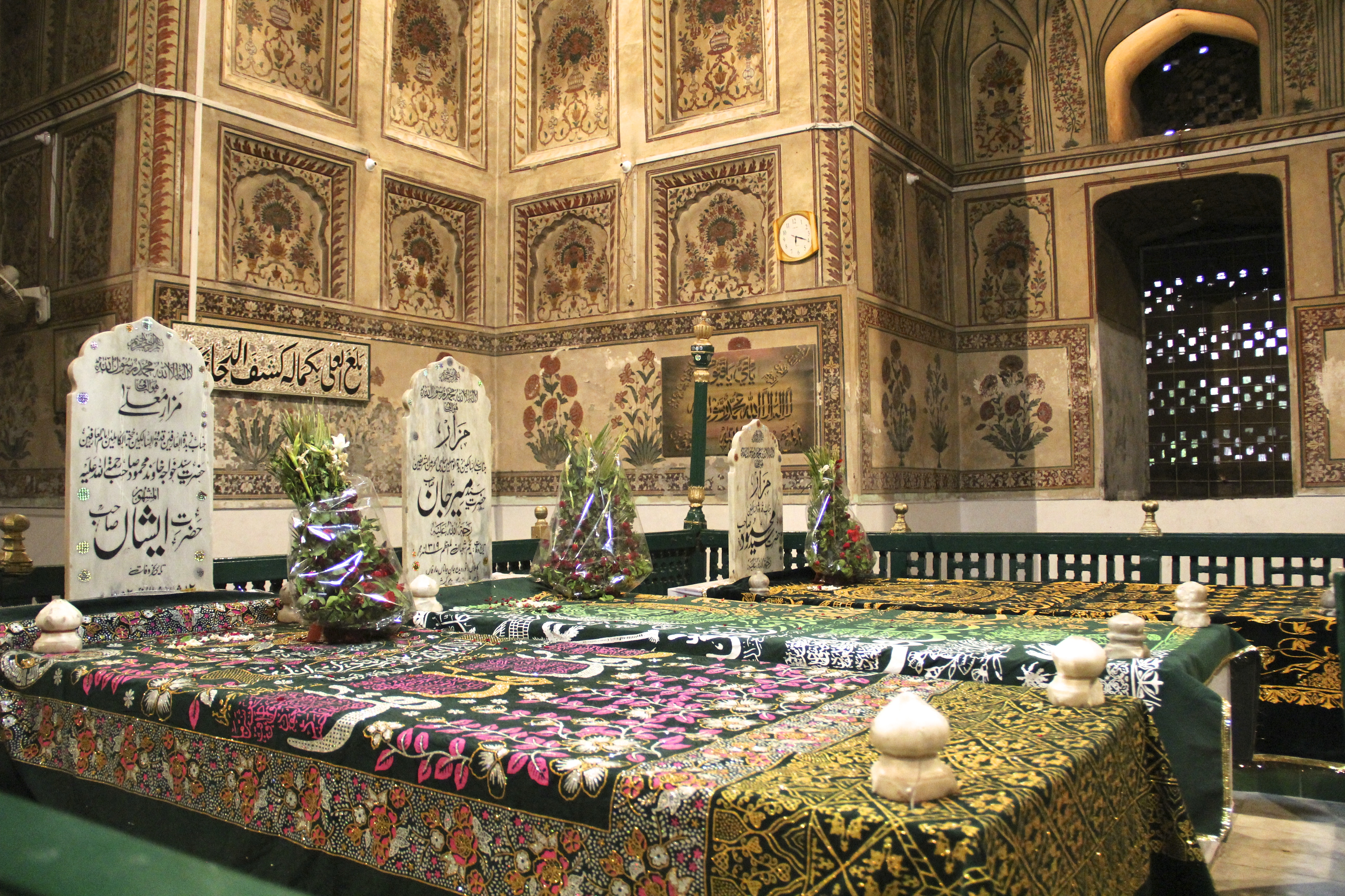 Holy graves of Hazrat Ishaan Shah Saheb, Hazrat Sayyid Mir Jan Shah Saheb and Hazrat Sayyid Mahmud Shah Saheb